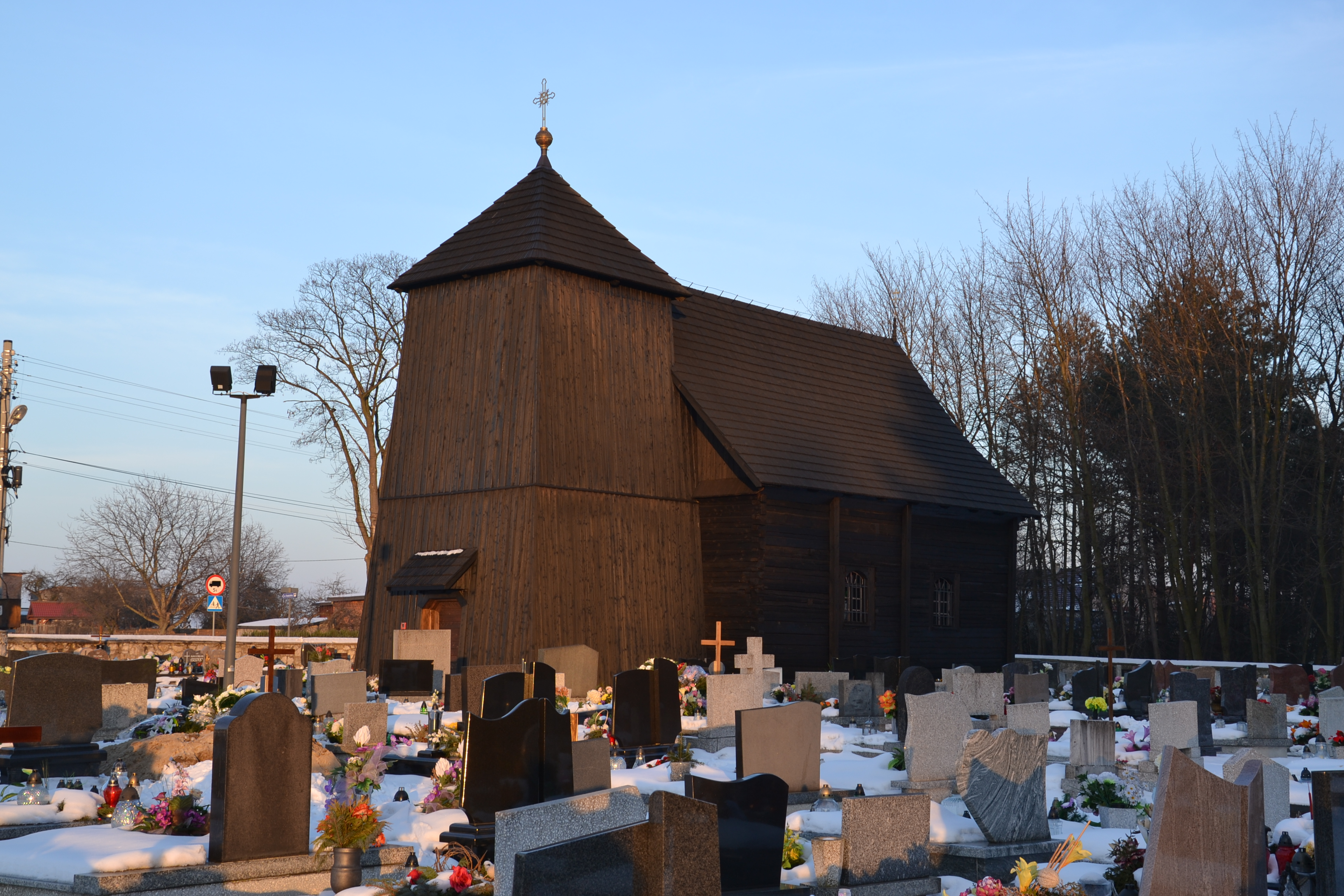 Smolnica (Smolnitz, Eichenkamp), Upper Silesia - wooden church